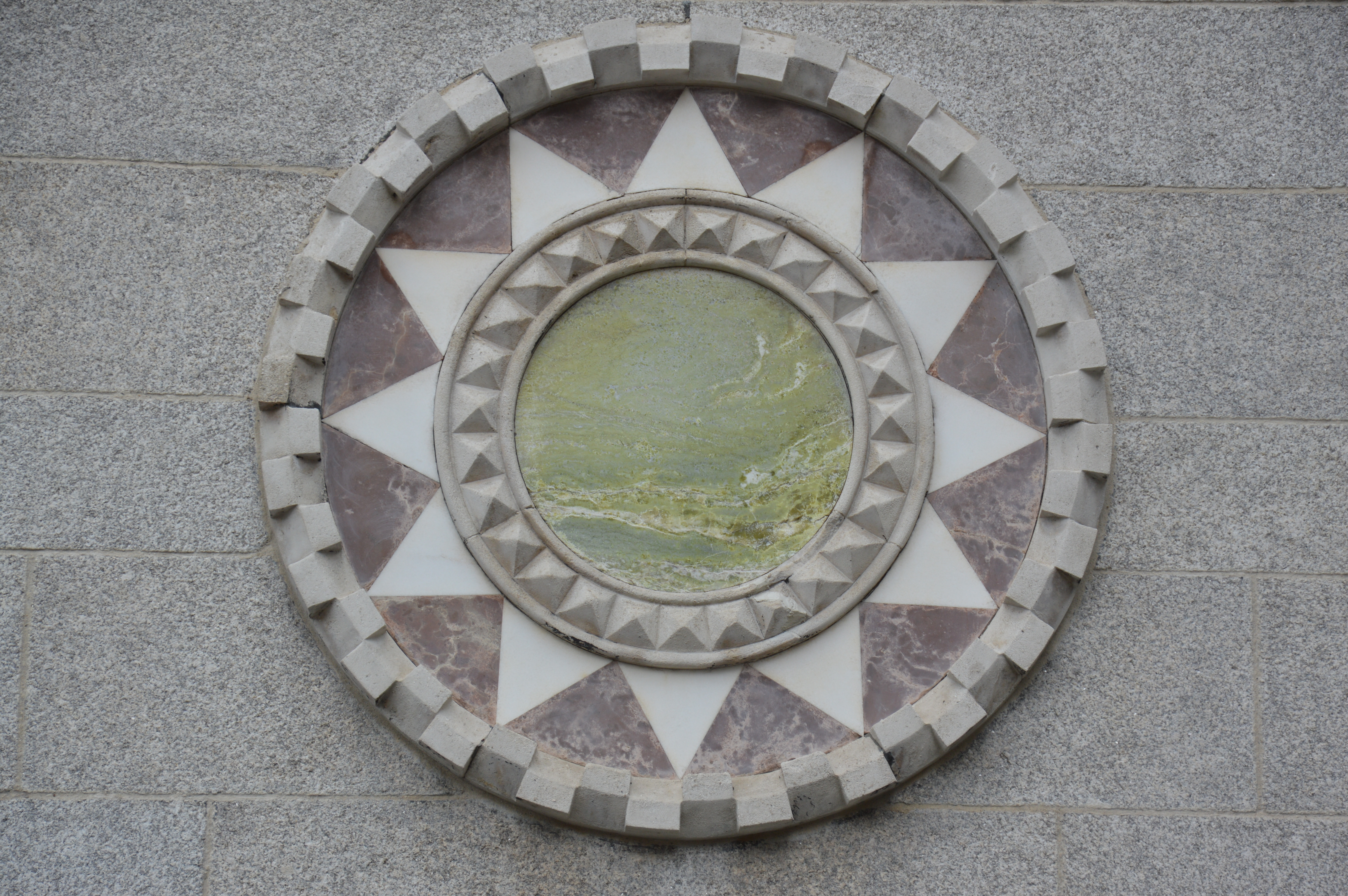 Decorations on the Museum Building, Trinity College, Dublin